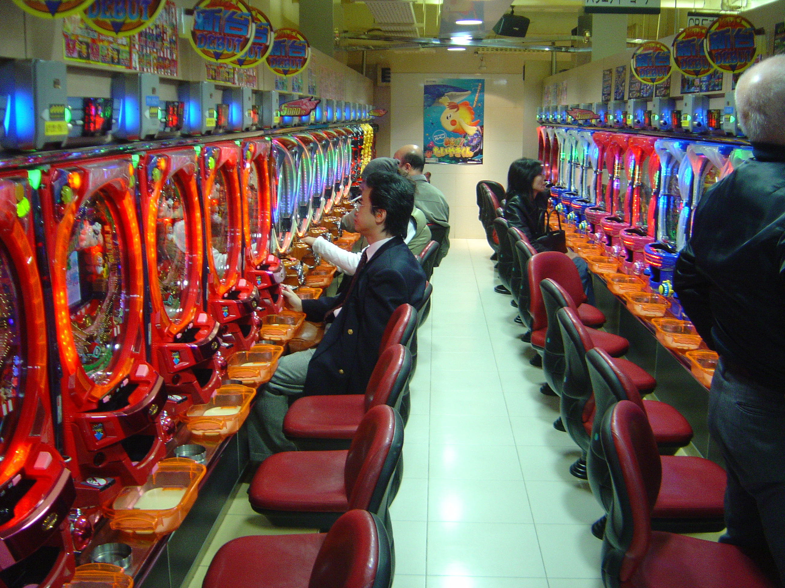 Pachinko parlor in Tōkyō Picture taken in 2005 by David Monniaux